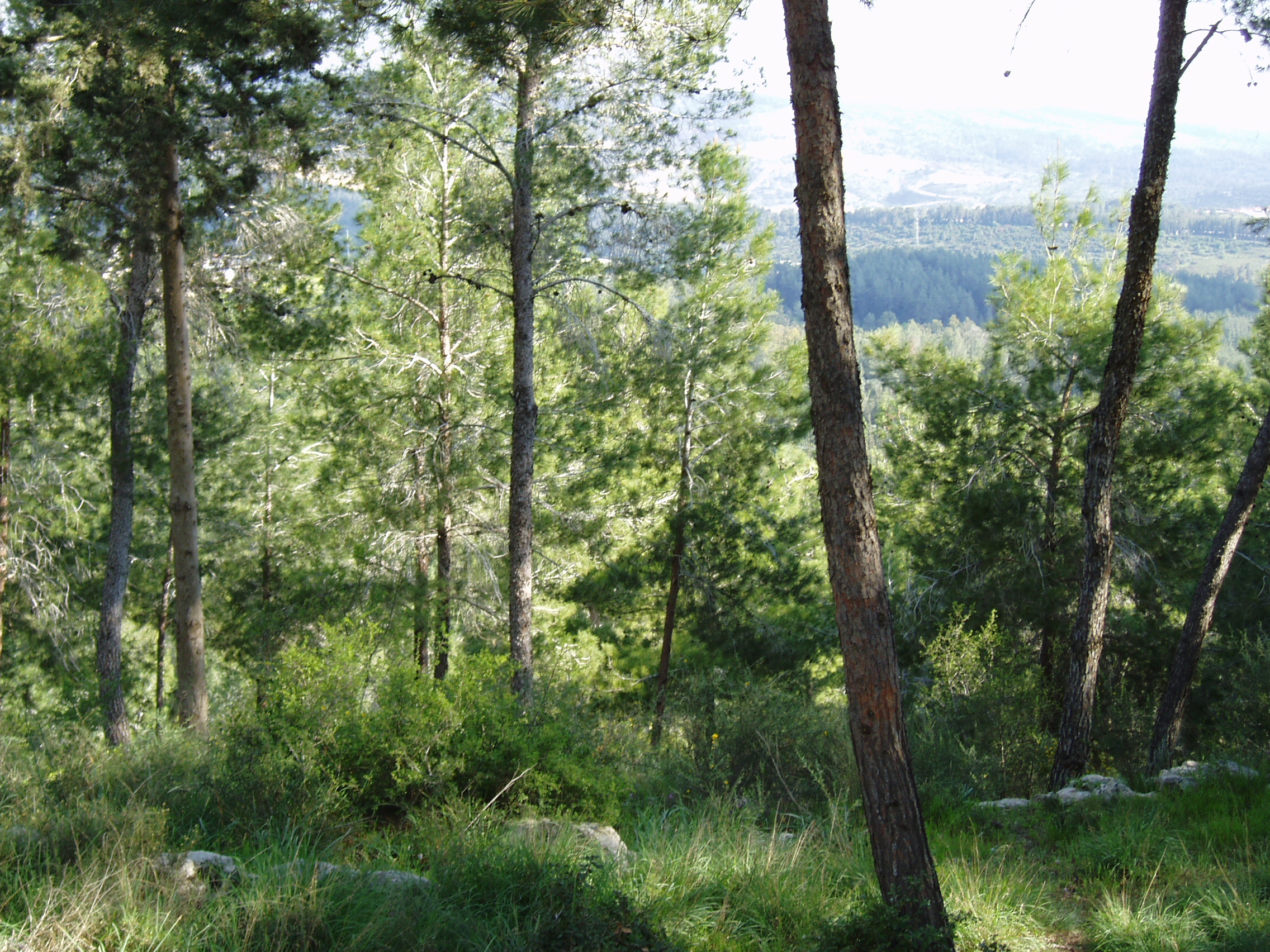 Photograph taken March 18, 2006, in Eshtaol Forest (Hebrew, יער אשתאול), Rabin Park (פארק רבין), Israel, a Jewish National Fund forest. Released into the public domain.